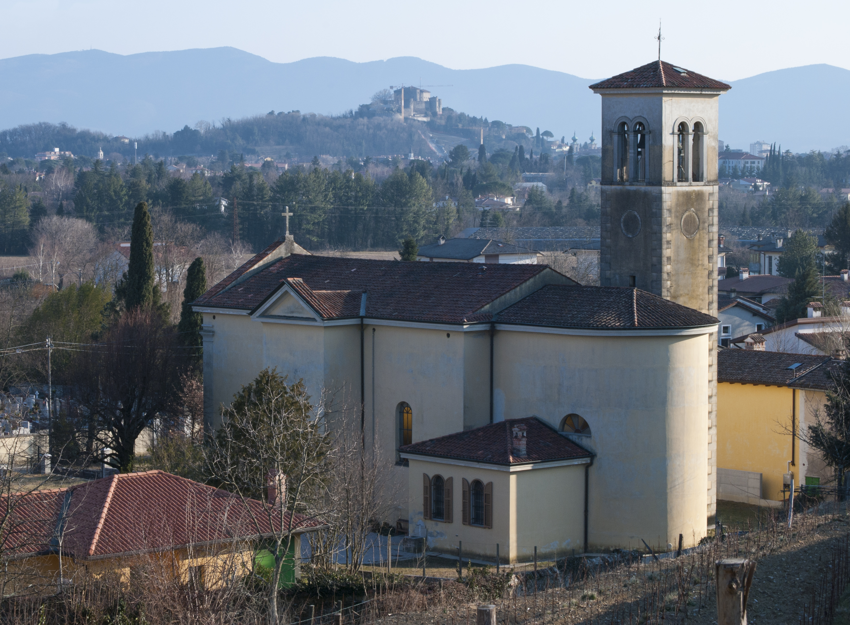 Church santi Mauro e Silvestro, Piuma, Gorizia.